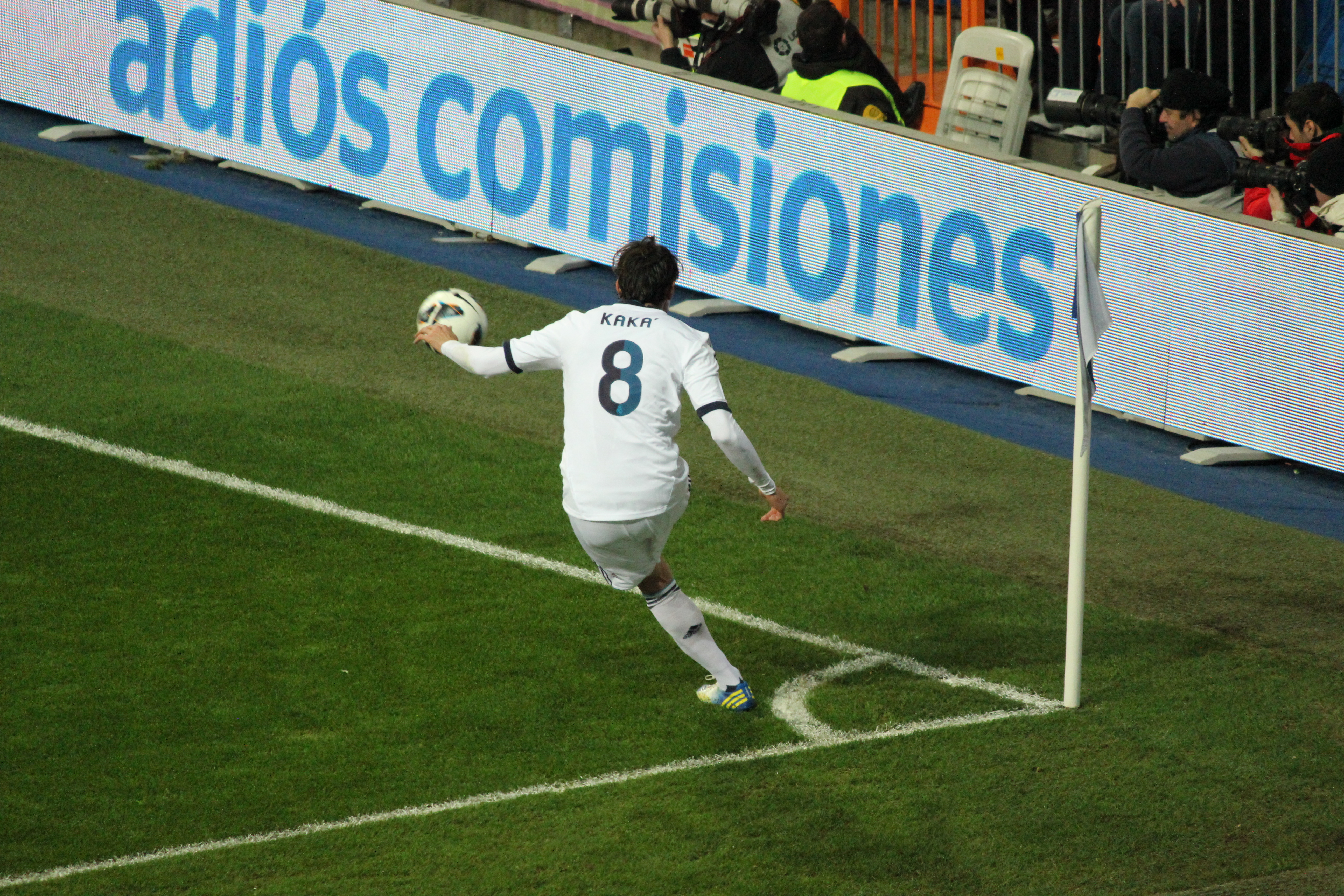 Real Madrid v Sevilla 10 February 2013 in a La Liga game at Real Madrid's home grounds.